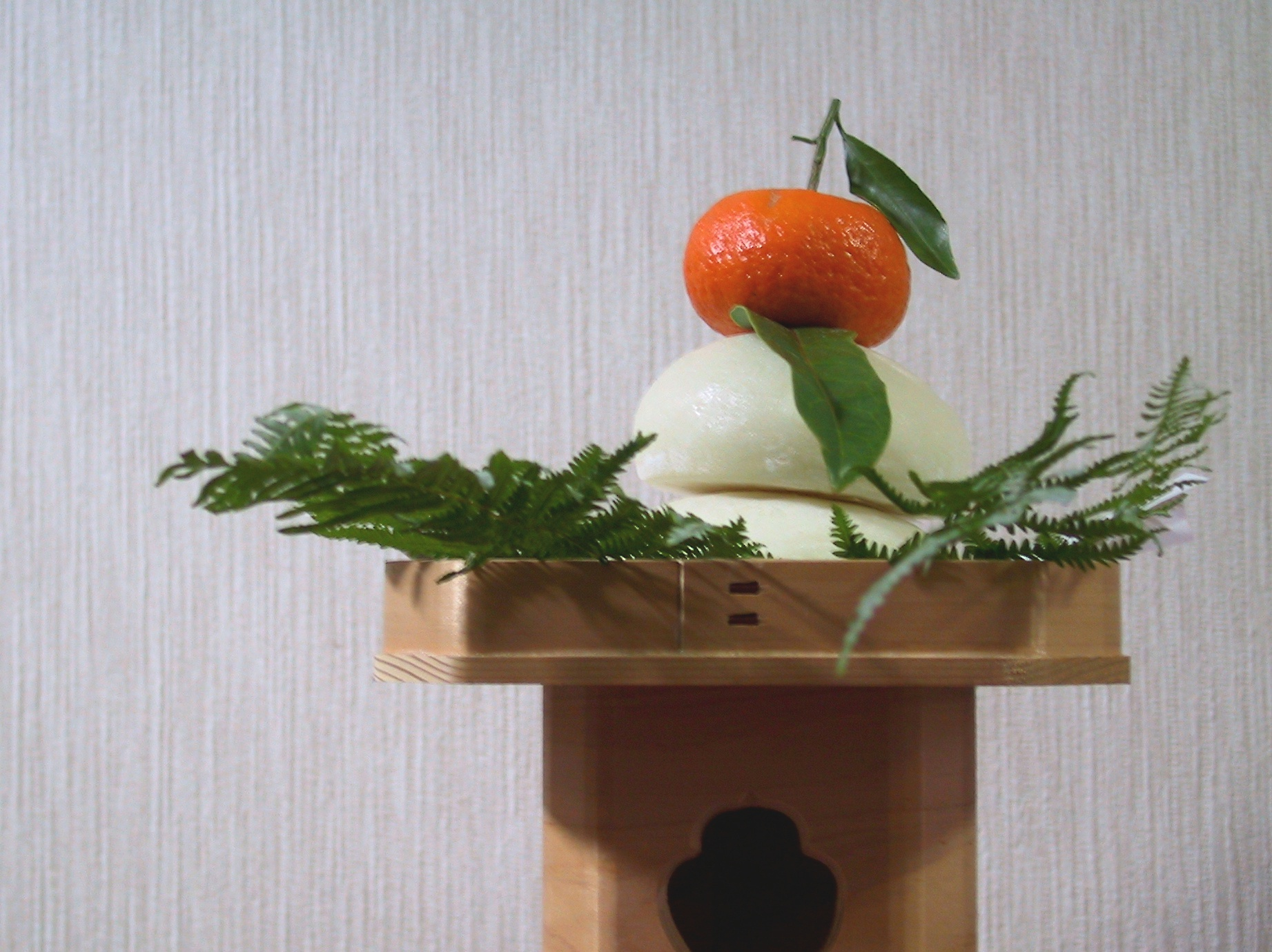 The glutinous rice (mochi), which is offered to Buddha and other deities at the New Year, is known as kagamimochi. This delicacy consists of a stack of two large round rice cakes. The round shape symbolizes fulfillment in the family. The stacked cakes indicate successfully "piling up" or adding another year to one's life.